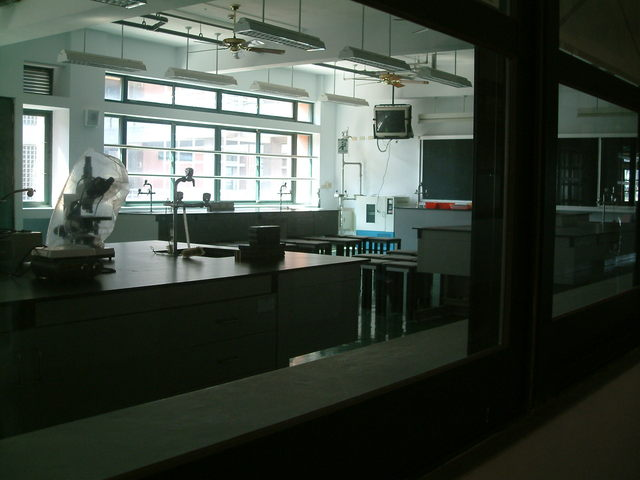 The Labortory of LSSH